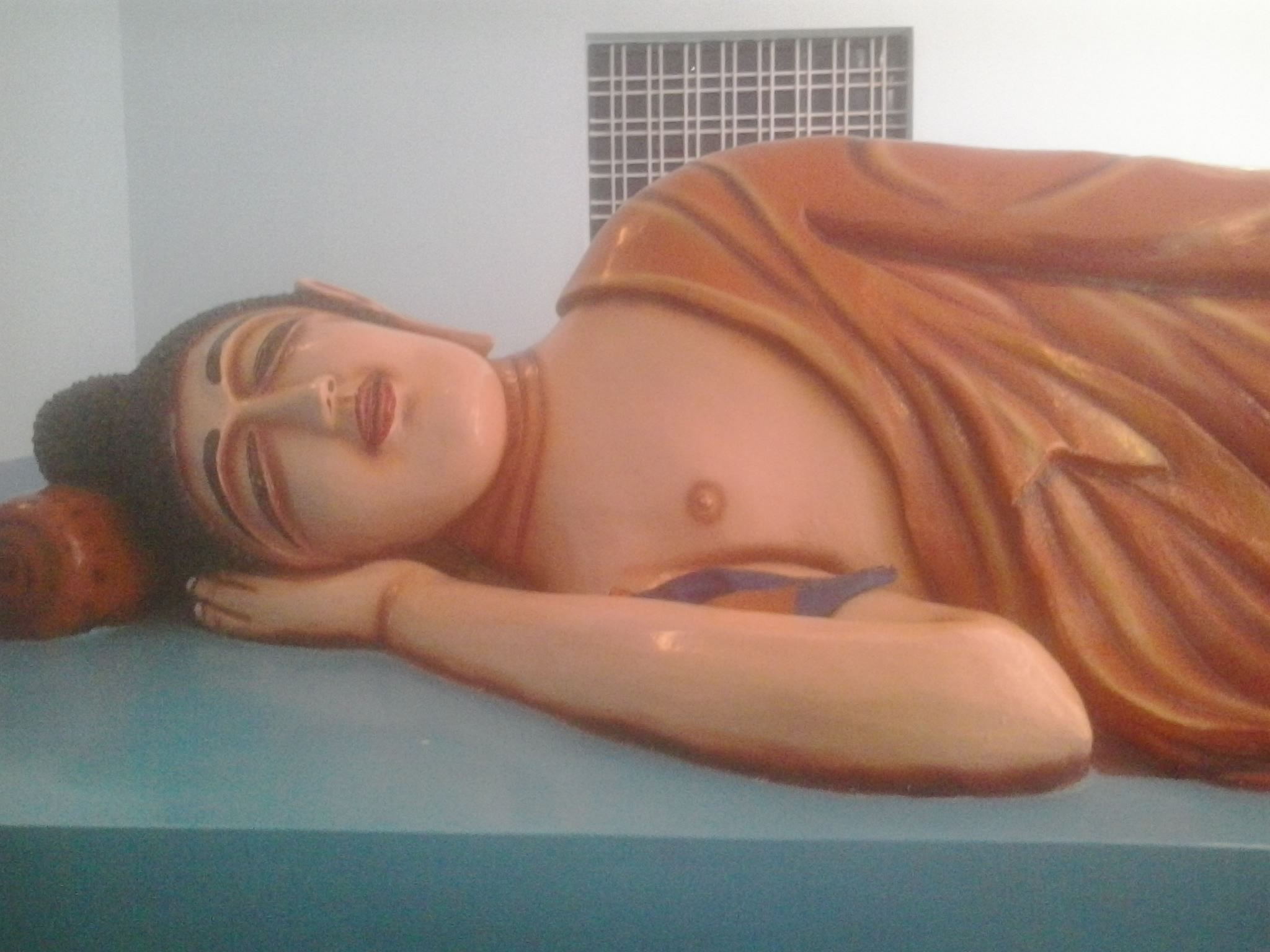 Sleeping Buddha at Dhammabhumi, Bramhapuri